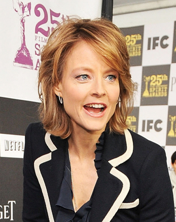 Actress Jodie Foster with the LG Electronics Kompressor Vacuum on The 25th Spirit Awards Blue Carpet held at Nokia Theatre L.A. Live on March 5, 2010 in Los Angeles, California. Photo by George Pimentel/WireImage.com.